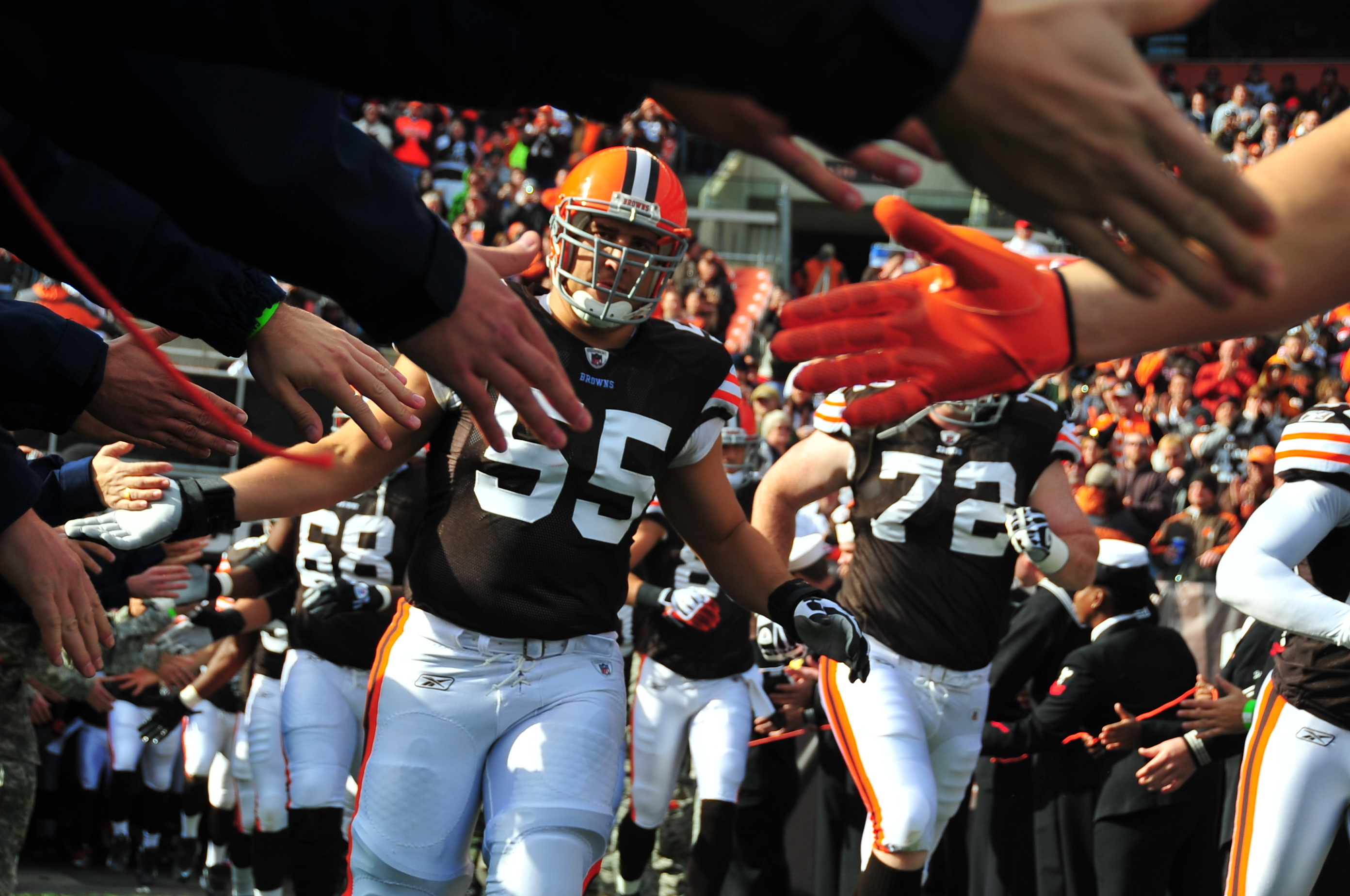 CLEVELAND - Cleveland Browns offensive lineman Alex Mack slaps Coast Guardsmen's hands as he runs through the introduction gauntlet during military appreciation day at Cleveland Browns Stadium Nov. 7, 2010. Members from all five branches of the armed forces were selected to participate in opening ceremonies during the Browns' game against the New England Patriots. (U.S. Coast Guard photo by Petty Officer 2nd Class Lauren Jorgensen)